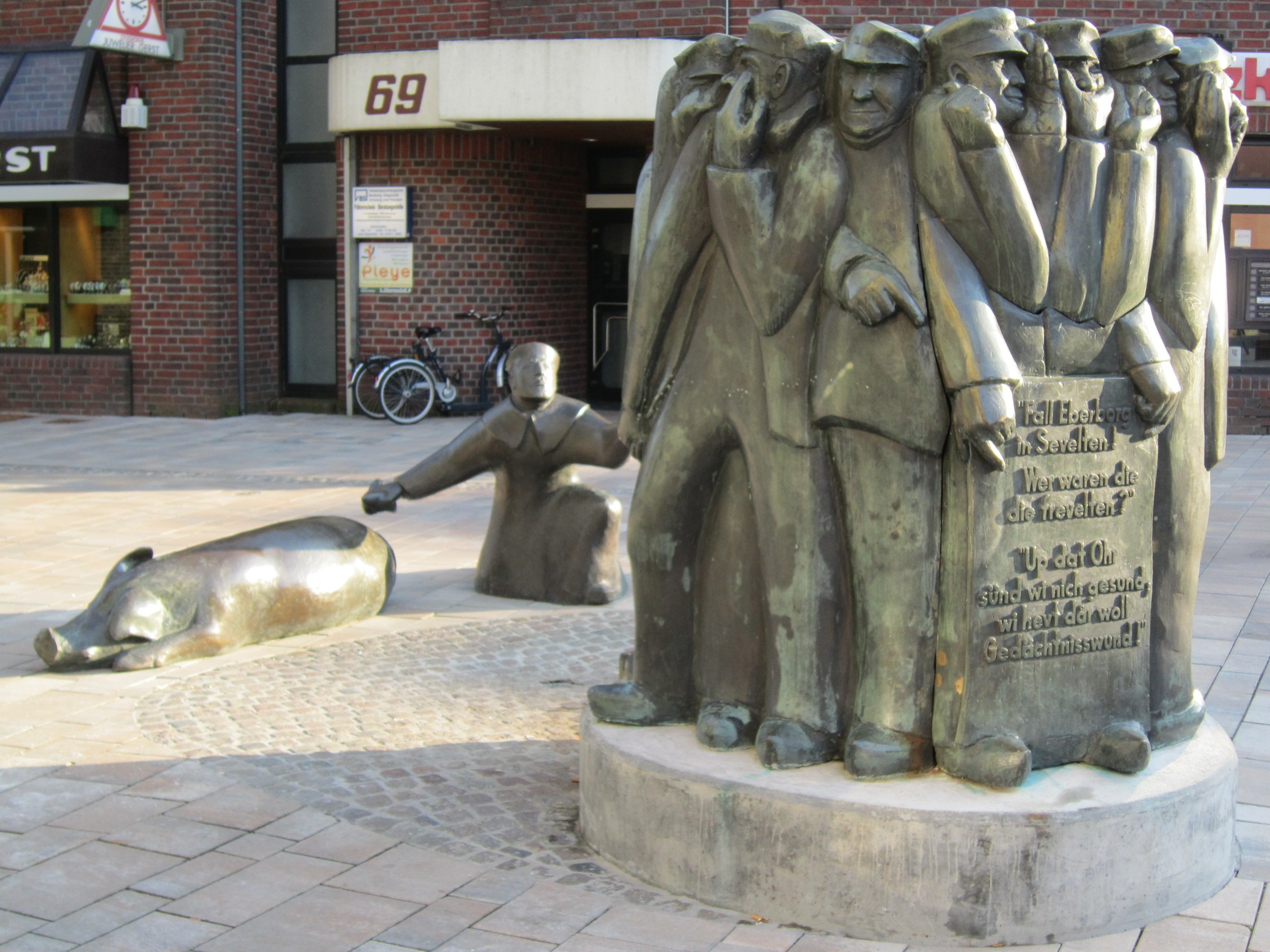 Sculpture "Krach um Jolanthe" ("Quarrel about Jolanthe") in Cloppenburg (Lower Saxony)